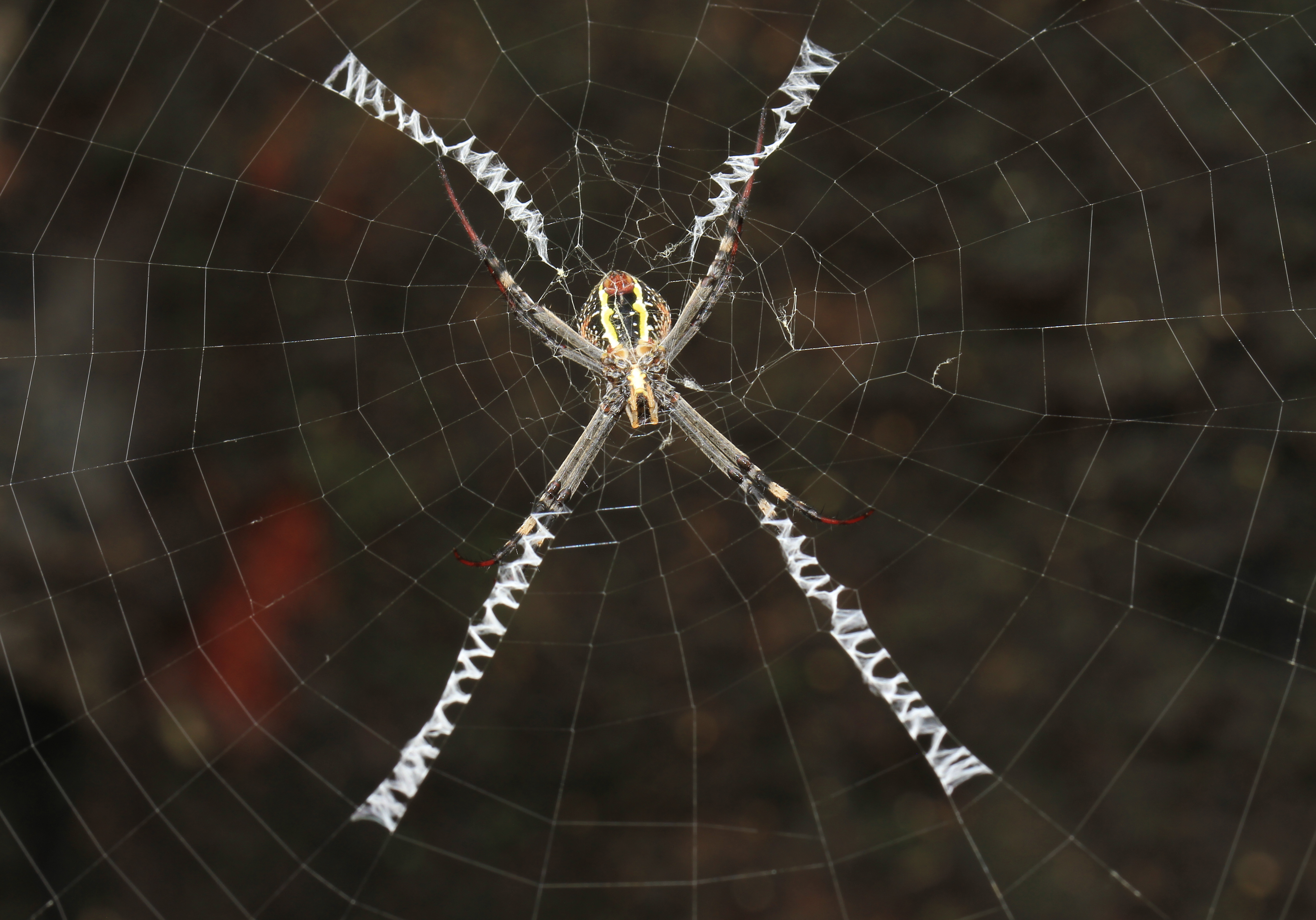 Argiope keyserlingi, St. Andrews Cross Spider (female), taken in Sydney, Australia